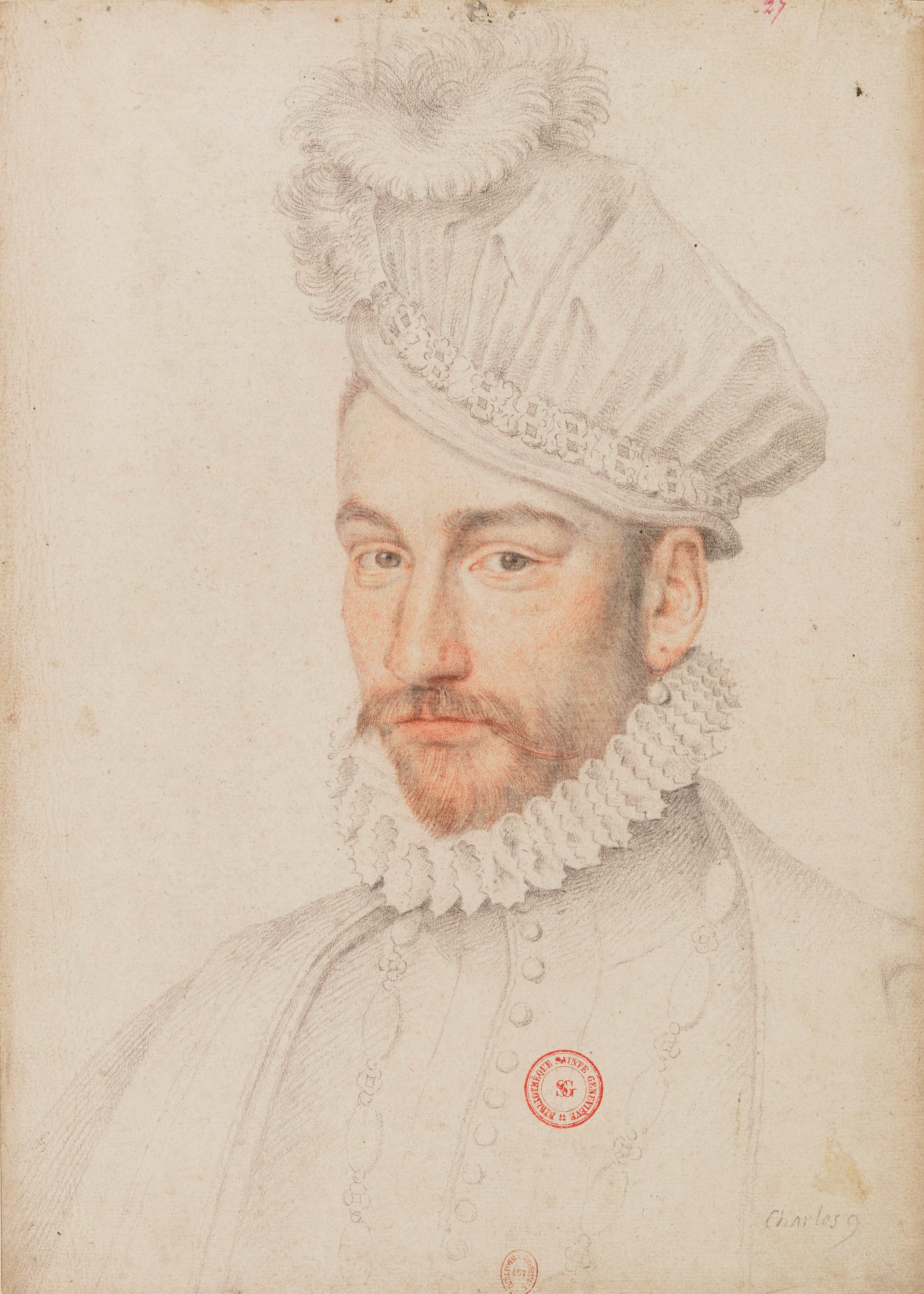 King Charles IX. of France, son of King Henry II. of France and Maria de Medici, husband of Archduchess Maria Elisabeth of Austria.